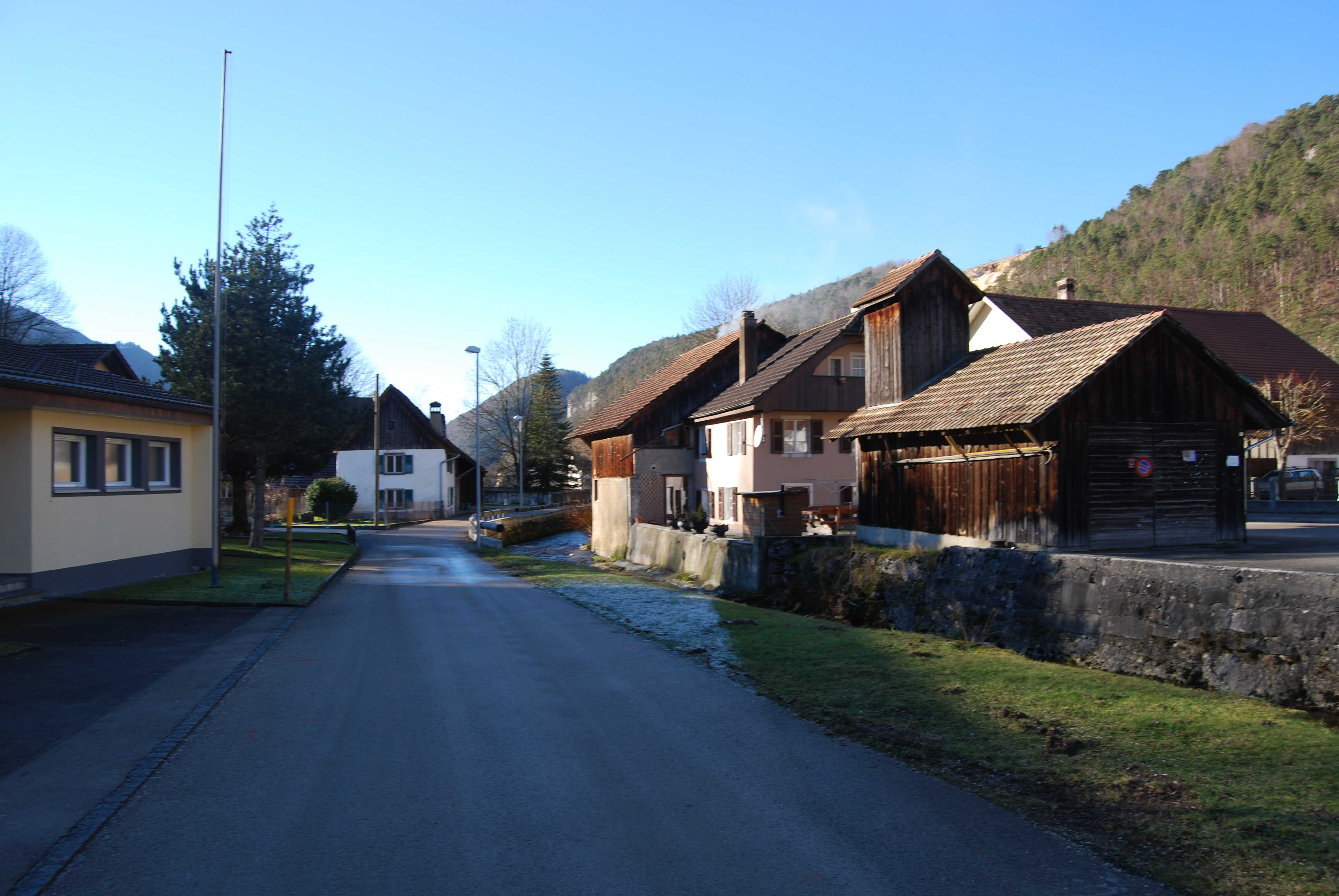 Stream Gabiare at Vermes, canton of Jura, SwitzerlandEsperanto: Rivereto Gabiare en Vermes, Kantono Ĵuraso, Svislando